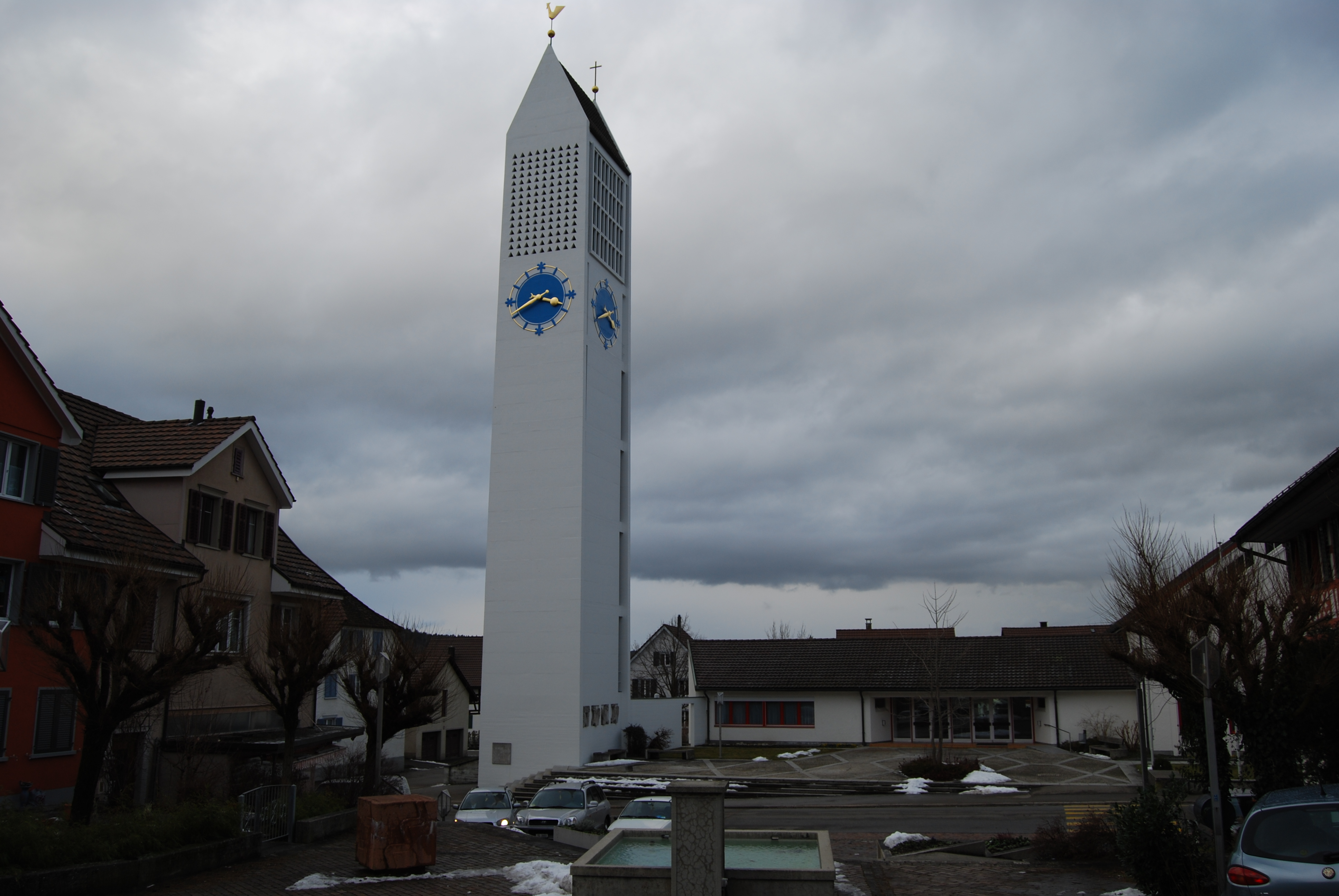 Protestant church of Aadorf, canton of Thurgovia, SwitzerlandEsperanto: Protestanta preĝejo de Aadorf, Kantono Turgovio, Svislando